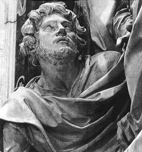 The Meeting of Leo I and Attila.